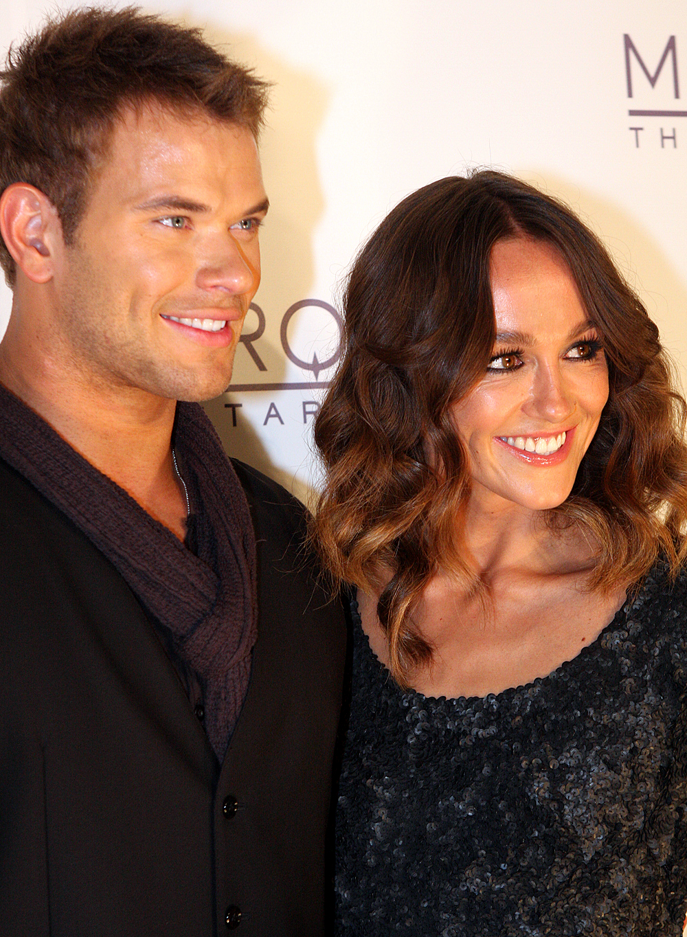 Kellan Lutz & Sharni Vinson at the Paris Hilton: Marquee The Star Sydney 2012.